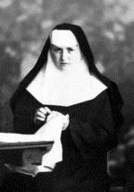 Tarsykiya Matskiv (1919-1944) - Ukrainian Greek Catholic nun and martyr, blessed